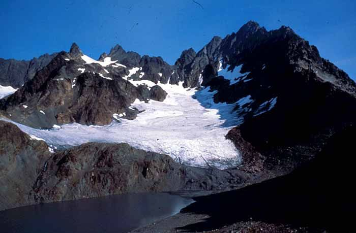 Anderson Glacier, Mount Anderson, Olympic National Park, date unknown. Photographer: Garland, M. Photo shows "Mt. Anderson & Anderson Glacier, south side of mountain."